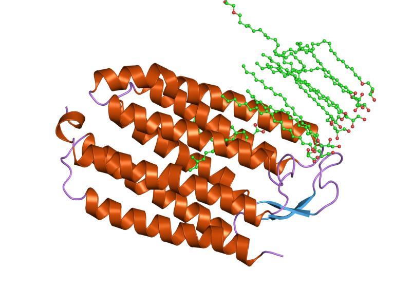 Cartoon representation of the molecular structure of protein registered with 1e12 code.